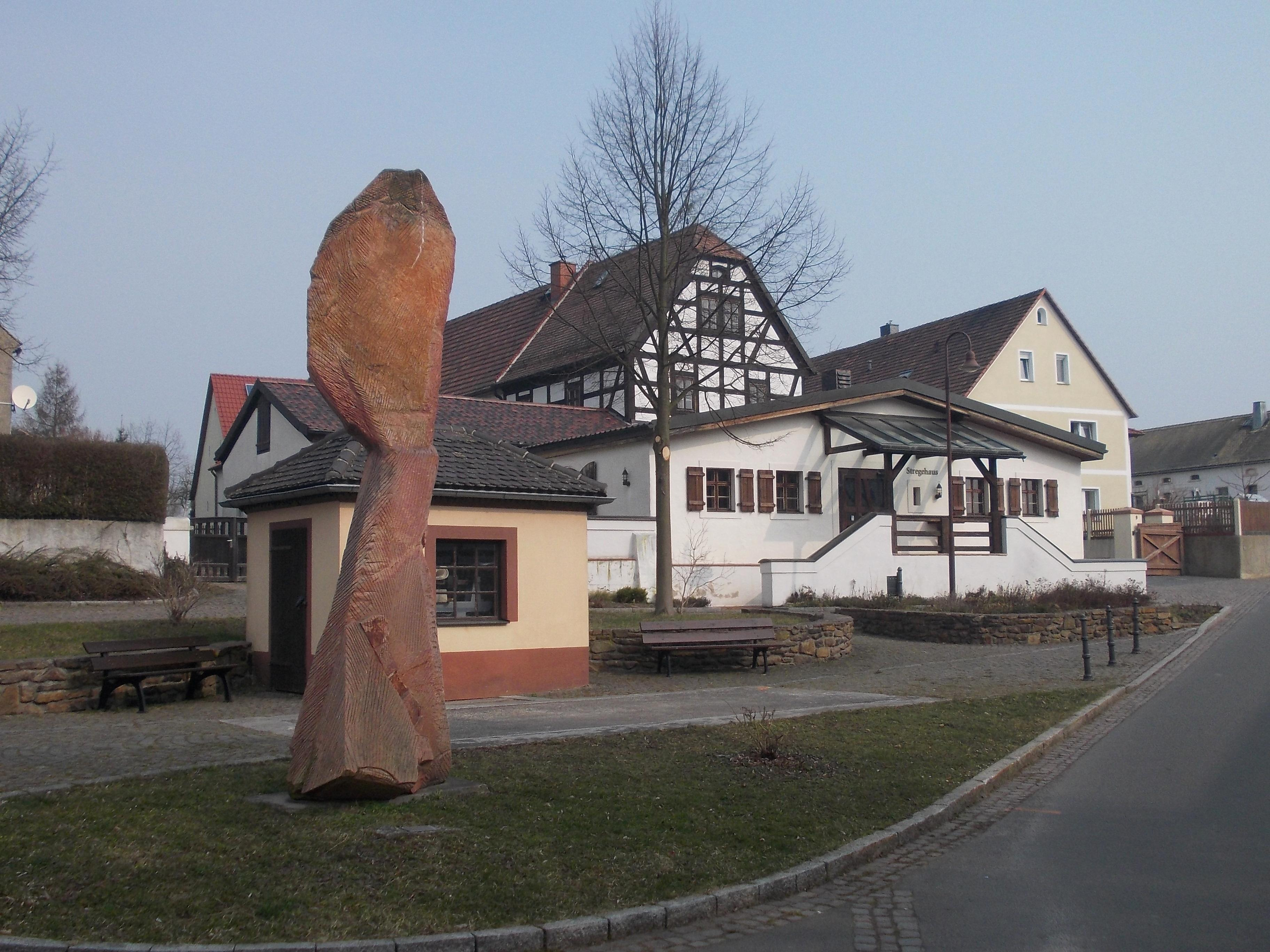 Sculpture and Stregehaus restaurant in Kaditzsch (Grimma, Leipzig district, Saxony)